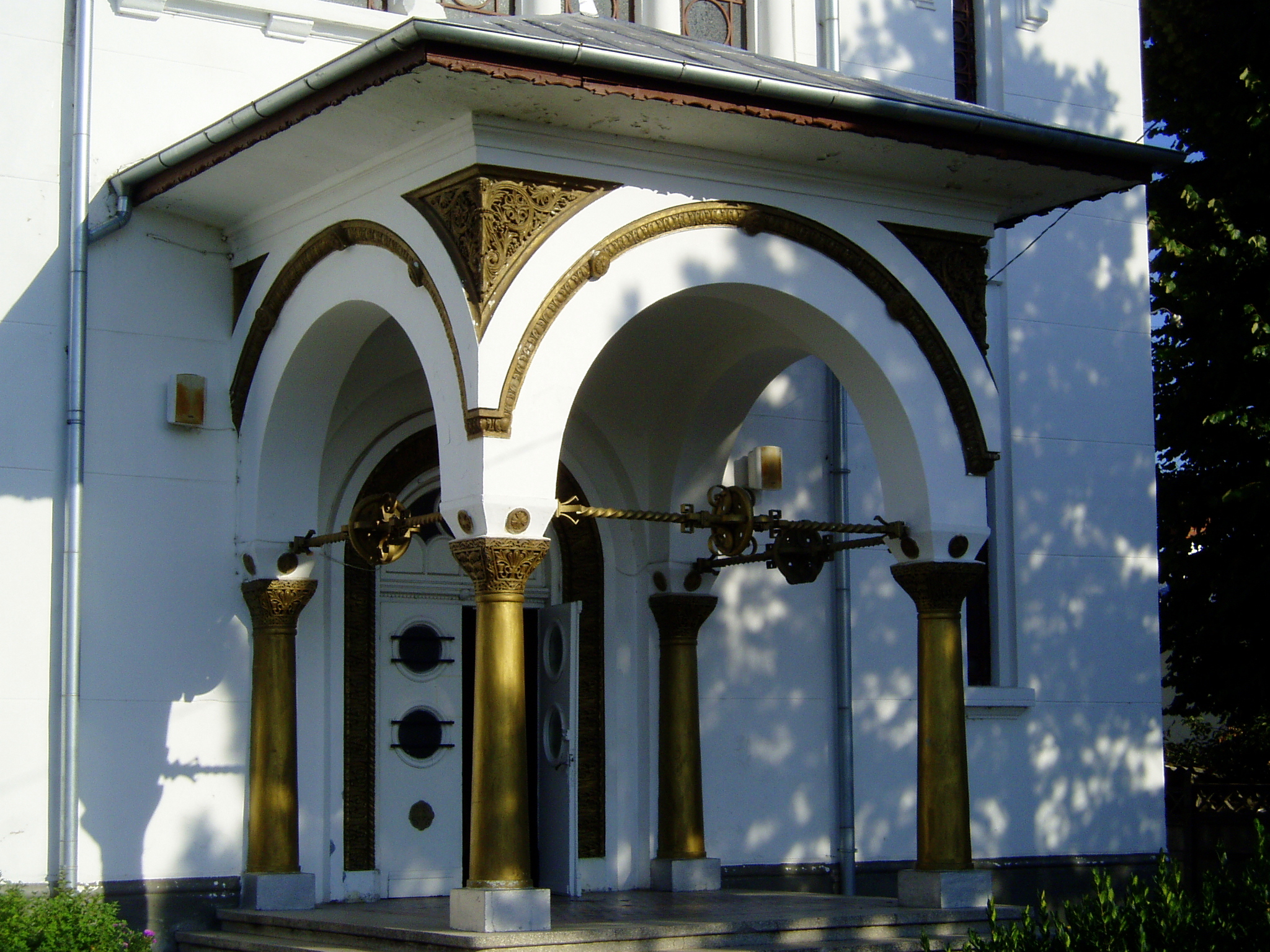 St Haralambie Church in Ploieşti, Romania. Architect (renovation, consolidation and major alterations in 1931-1932) : Toma T. Socolescu. This building is located at Măraşeşti street nr34, Ploieşti, Judeţul Prahova, Romania. We are the only heirs and descendants of Toma T. Socolescu (died in 1960 in Bucharest) and therefore owner of all his intellectual rights.